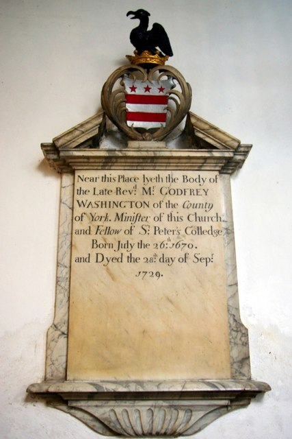 Washington monument Memorial in Little St Mary's Church to the Revd Godfrey Washington, Vicar of LSM, Fellow of Peterhouse and great uncle of George Washington, first President of the USA. His arms (argent, two bars gules, in chief three mullets of the last) are echoed in those of various American institutions connected with Washington and in the flag of the District of Columbia. For more information